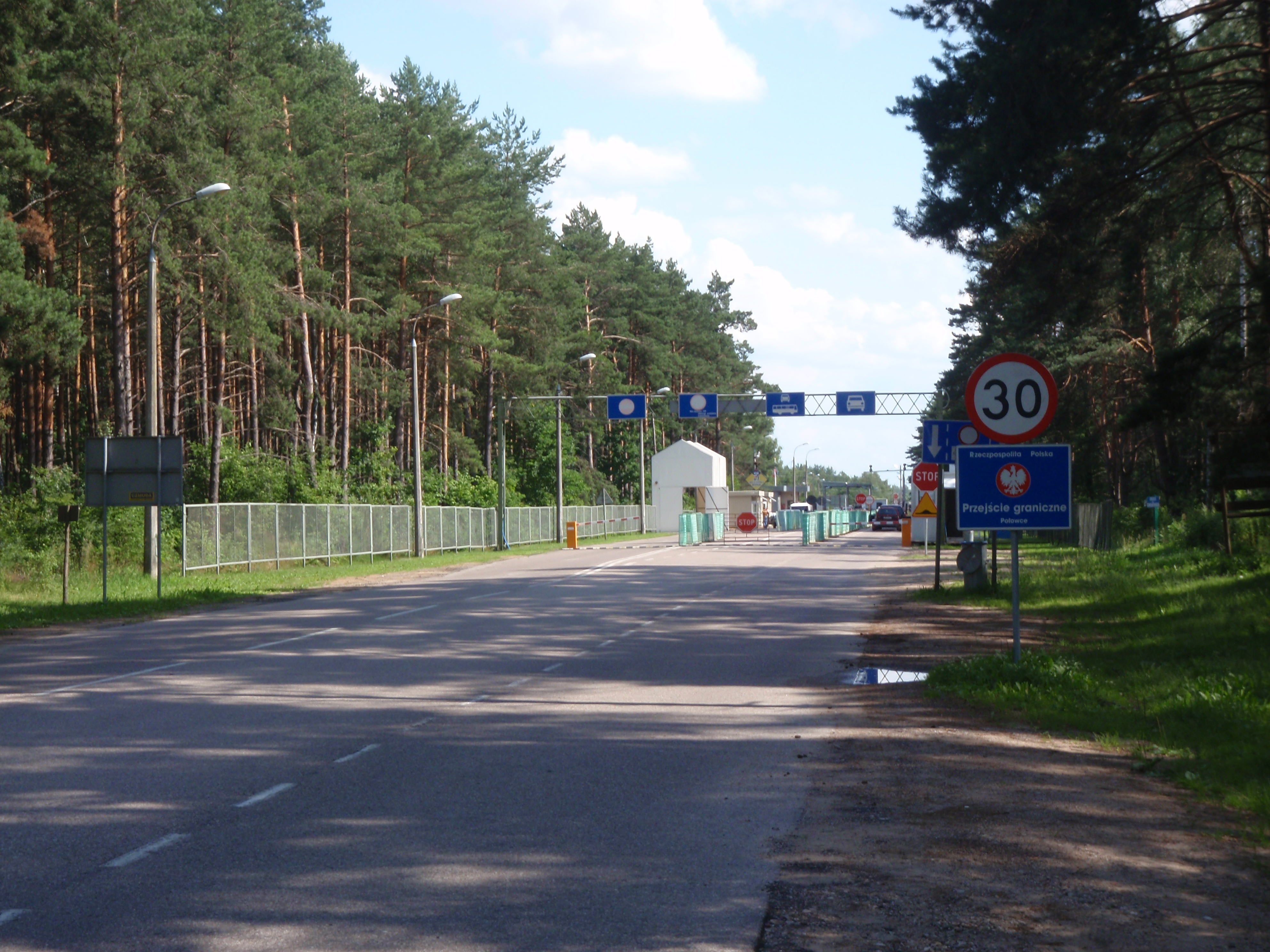 Peschatka(by)-Polowce(pl) border checkpoint - checkpoint